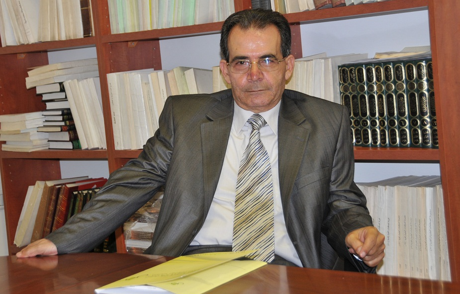 بروفيسور محمود غنايم